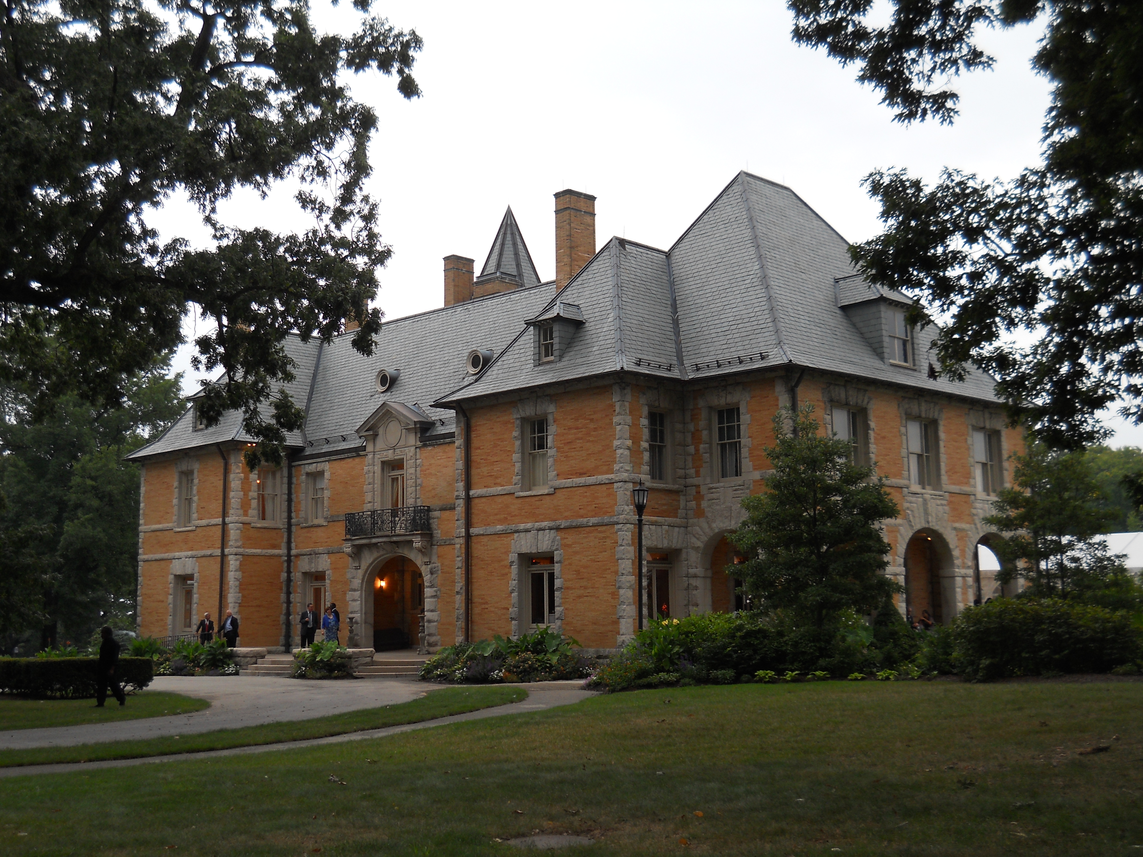 Cairnwood